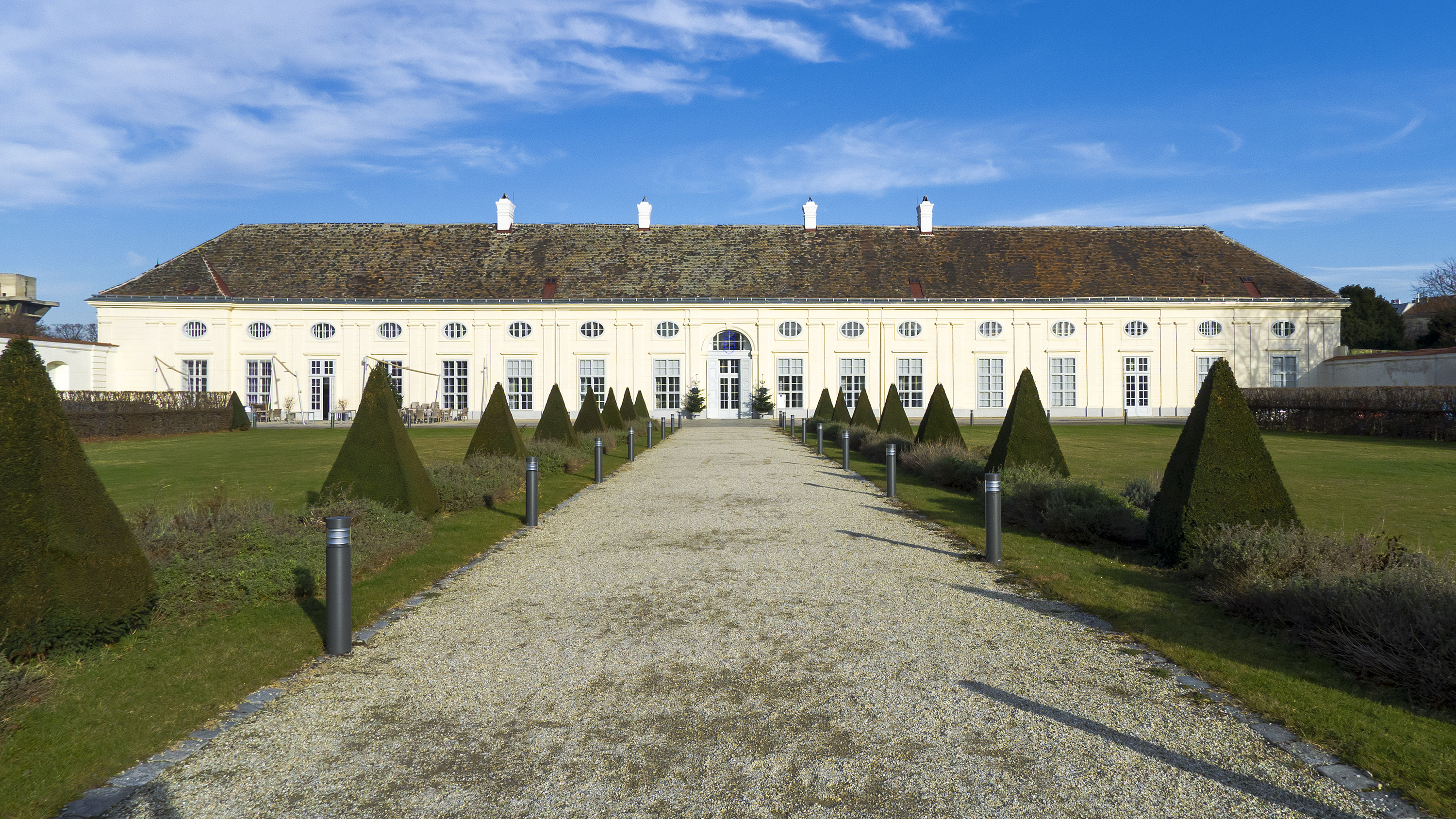 Porclain factory Porzellanmanufaktur Augarten in Vienna 2